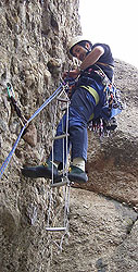 Artificial climb in Montserrat (Catalunya). "Pirenaica" route at "La Mòmia" (mummy) rock.